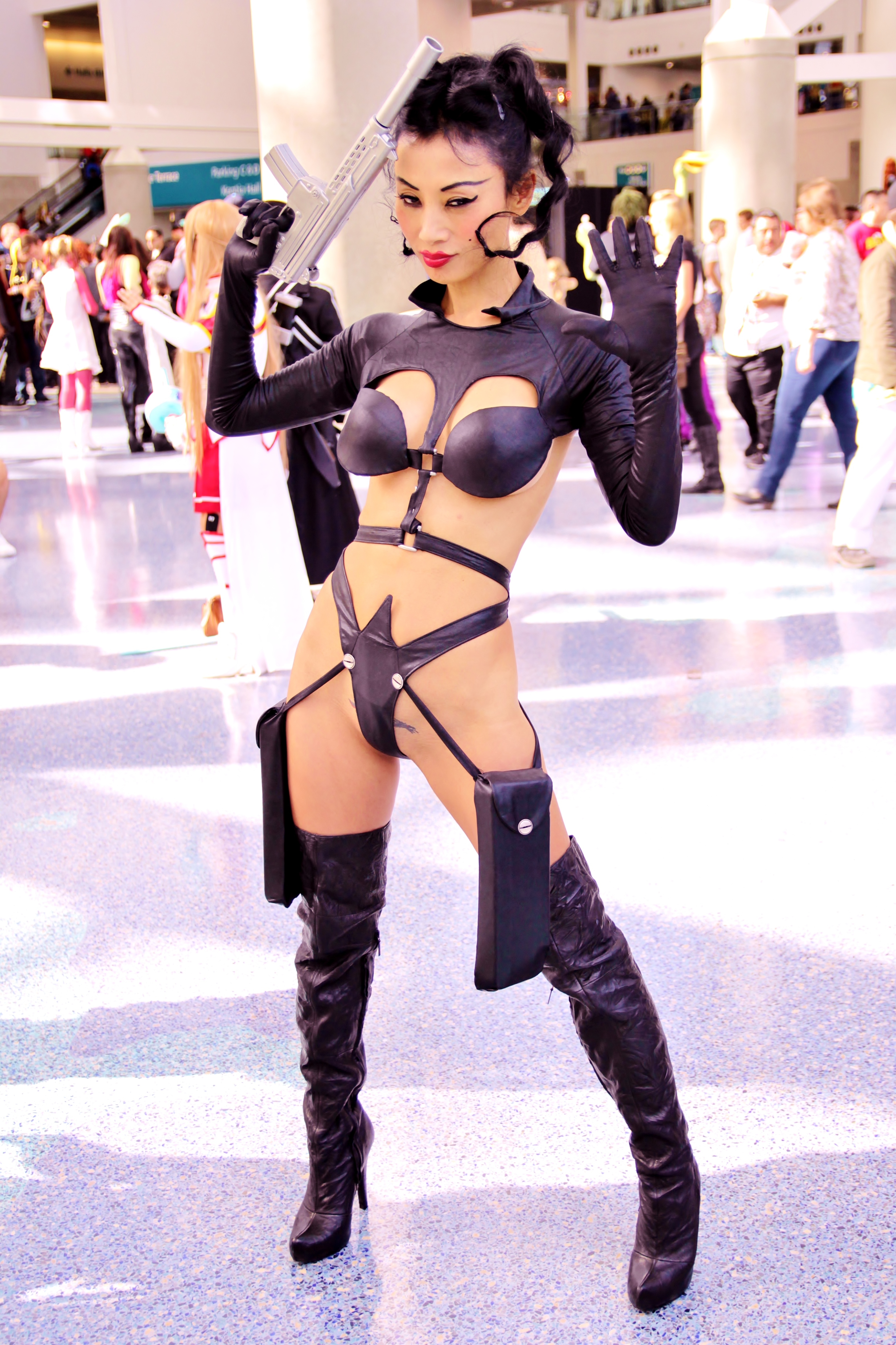 Cosplay of Æon Flux at Stan Lee's Comikaze 2014.